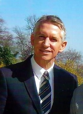 Gary Lineker in 2011